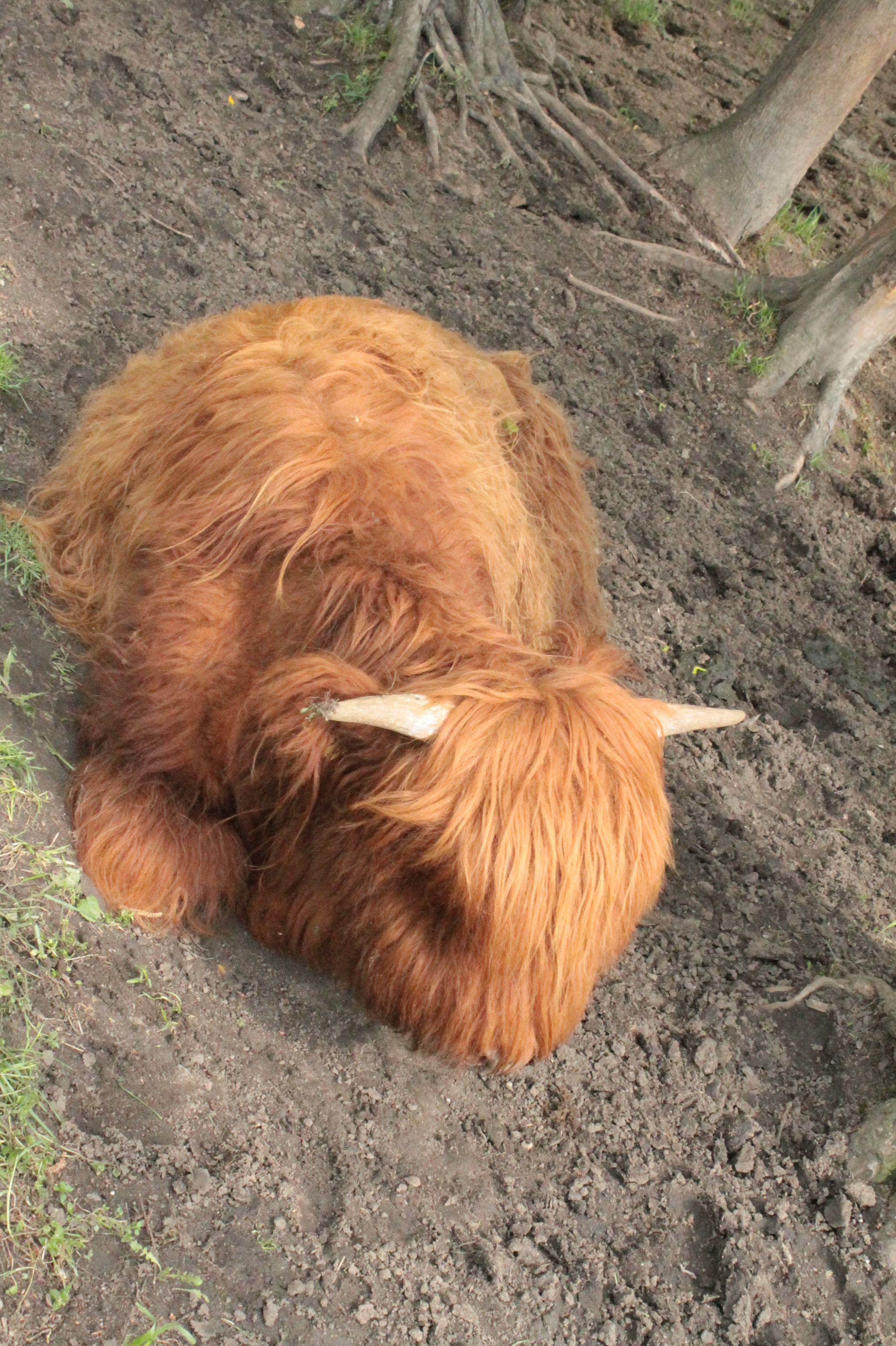 Two month old Highland cow